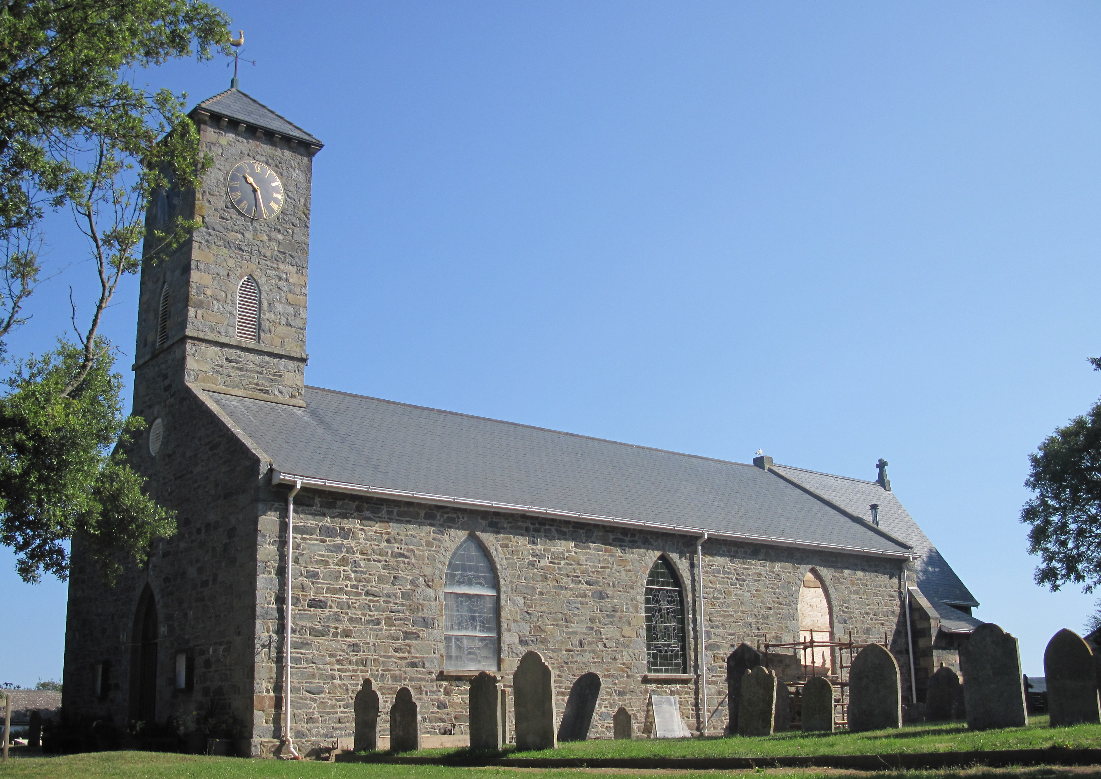 Visit to Sark 2011